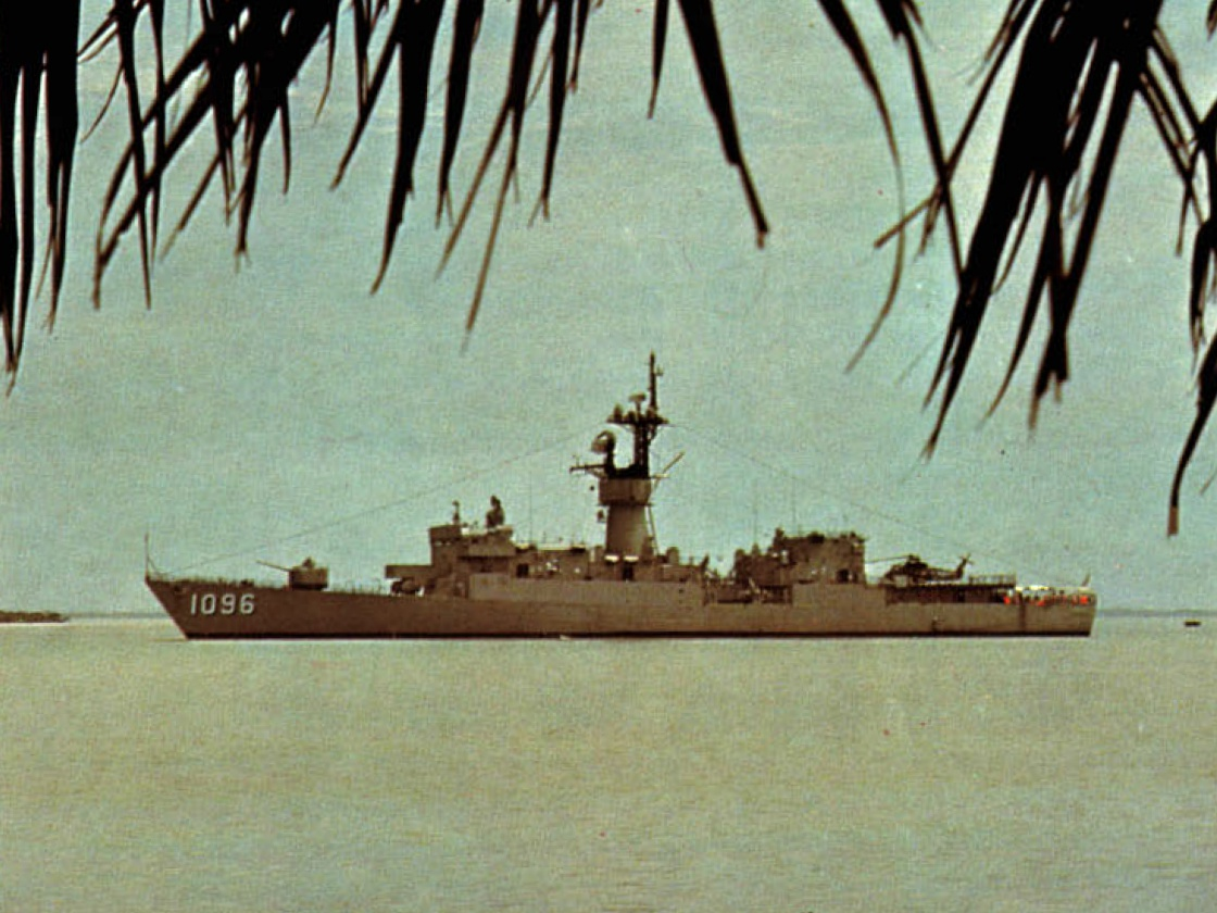 The U.S. Navy frigate USS Valdez (FF-1096) in Guinea-Bissau, in early 1978.